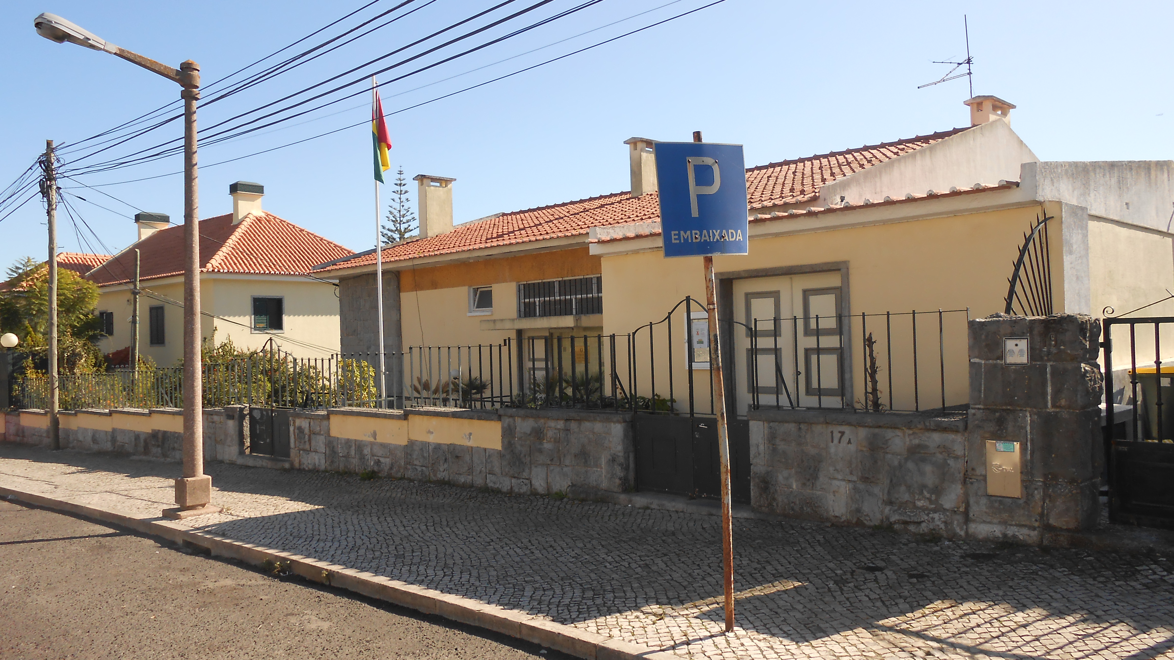 The embassy of Guinea-Bissau in the Rua de Alcolena in the Belém neighbourhood.